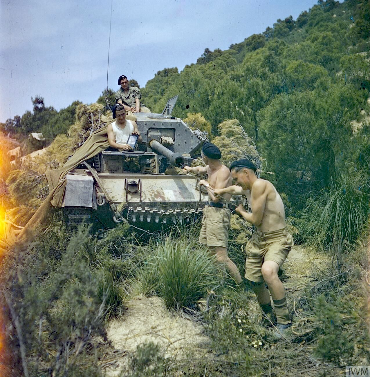 IWM caption : "THE BRITISH ARMY IN NORTH AFRICA, 1943: THE DRIVE ON TUNIS. Sergeant Elms of 16/5 Lancers and his tank crew at El Aroussa; Trooper Bates, Royal Armoured Corps, Signalman Bower, Royal Corps of Signals, and Trooper Goddard, Royal Armoured Corps, clean the 6-pounder gun of their Crusader tank while preparing for the drive on Tunis."